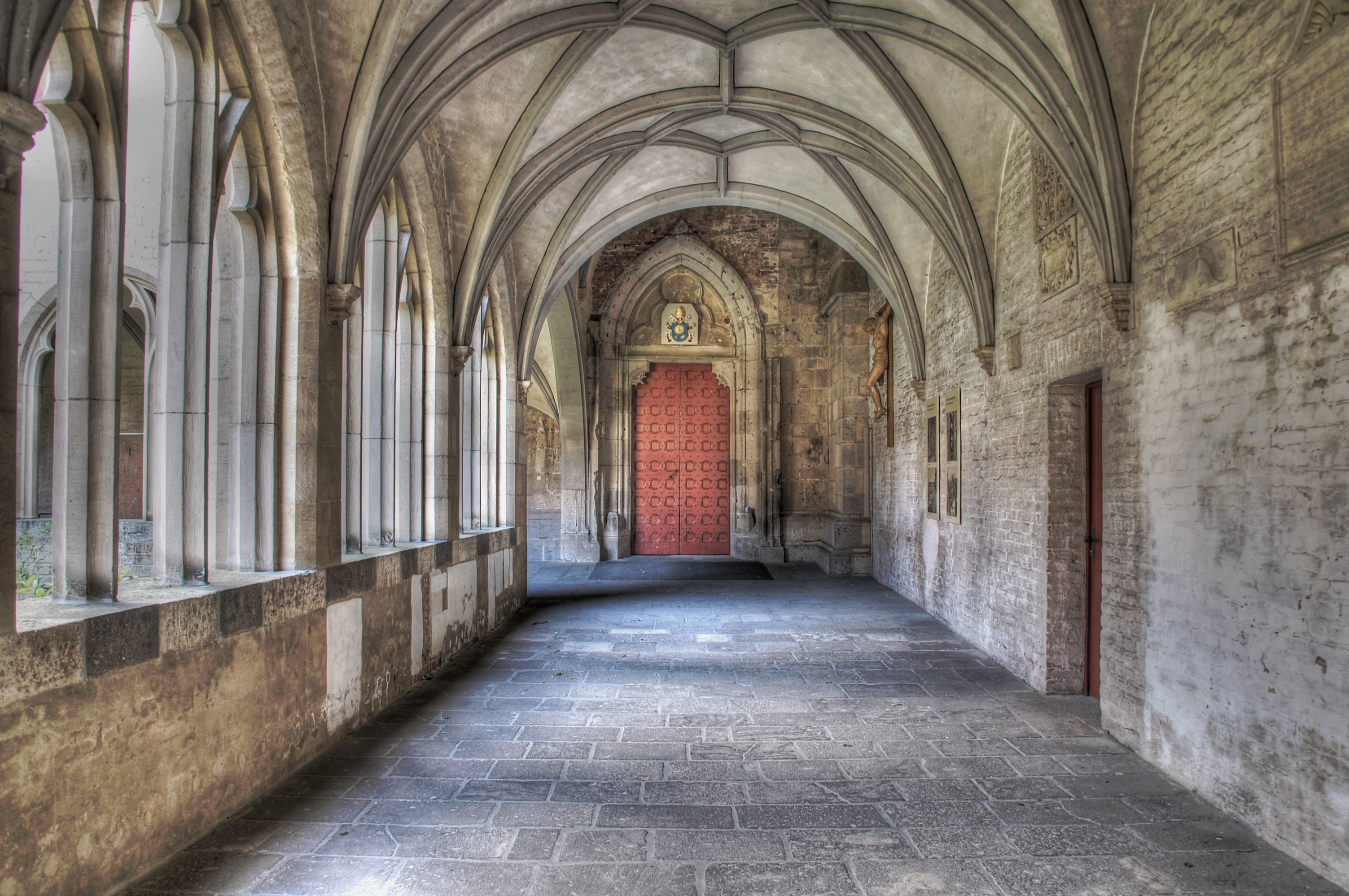 This is a HDR picture of the ,,Kreuzgang from the cathedral St.Viktor in Xanten, Germany.This is a photograph of an architectural monument., no. 8